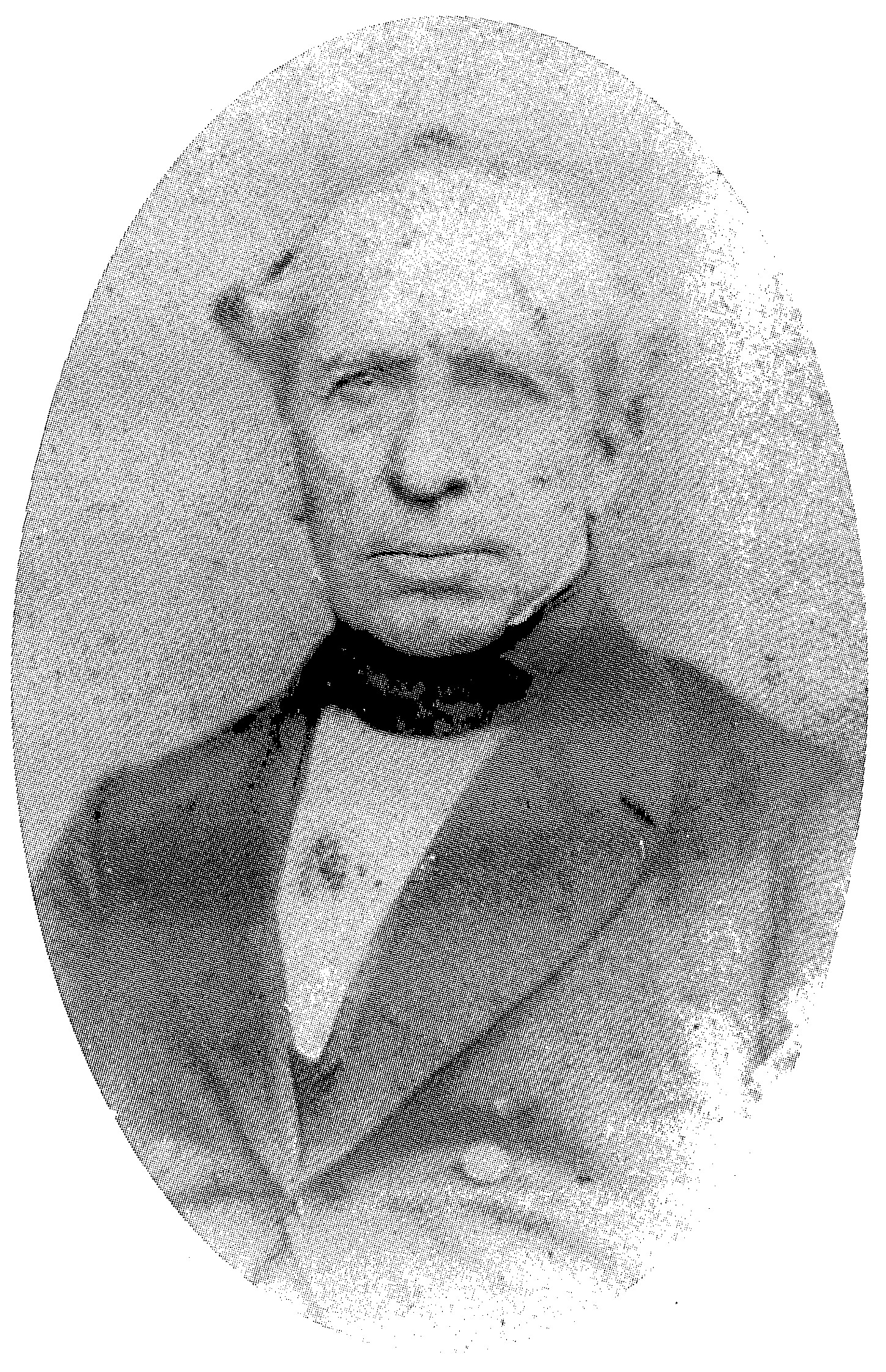 This is a photograph of Marshall Waller Clifton (1787–1861), settler and politician in colonial Western Australia, founder of the failed Australind settlement. The original photograph is held by the Battye Library, catalogue number 225184P.